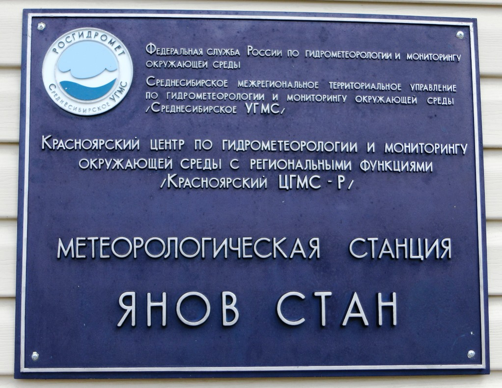 Meteorological Station Janov Stan